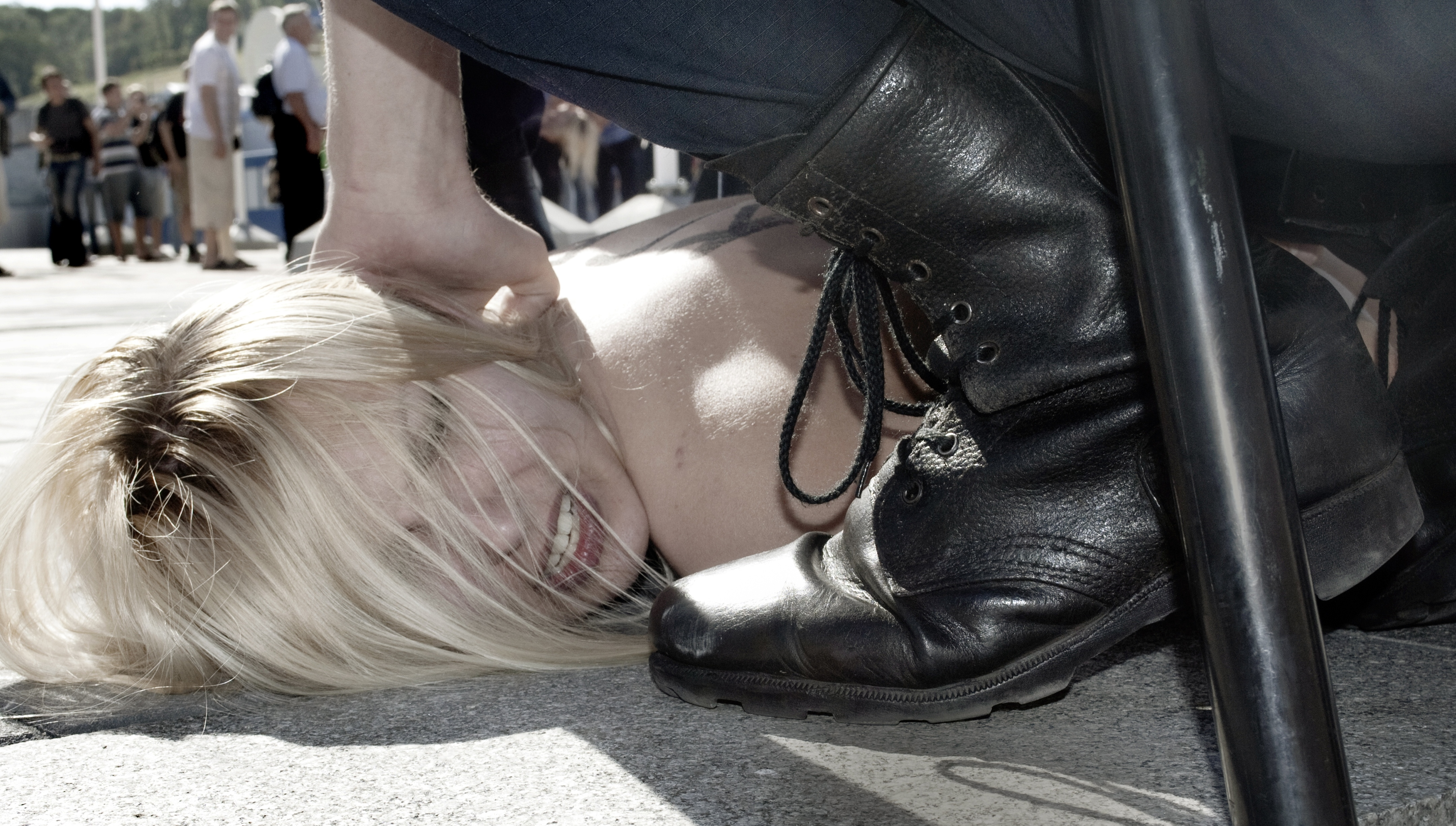 Zhdanova protesting in Kiev, June 2012.